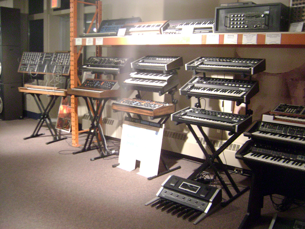 This is a shot of part of Canto's collection of MOOG synths. Visited the Cantos Foundation museum of electronic instruments and keyboards in February 2009 and took a lot of photos and videos. Confession: when I first saw this, I squee-d in absolute and uncontainable glee. Trackback: MatrixSynth - thanks for the link. Several prototypes and early custom build systems of Moog synthesizer are stocked and displayed at Cantos Music Foundation, Canada.[1][2] For example: [most left] 1CA Chris Swanson Modular System (1965, custom build) Chris Swanson was a composer and early demonstrator of R.A.Moog, Inc. [2nd from left] Lyra (1973, prototype) [stocked] Apollo (1974, prototype, home unit) [3rd from left] Patrick Moraz Double Minimoog (1973) [4th from left] Micromoog II, Micromoog XL, and Multimoog (1977) References ↑ Collection checklist. Cantos Music Foundation, Canada. ↑ Collection checklist. National Music Centre, Canada.